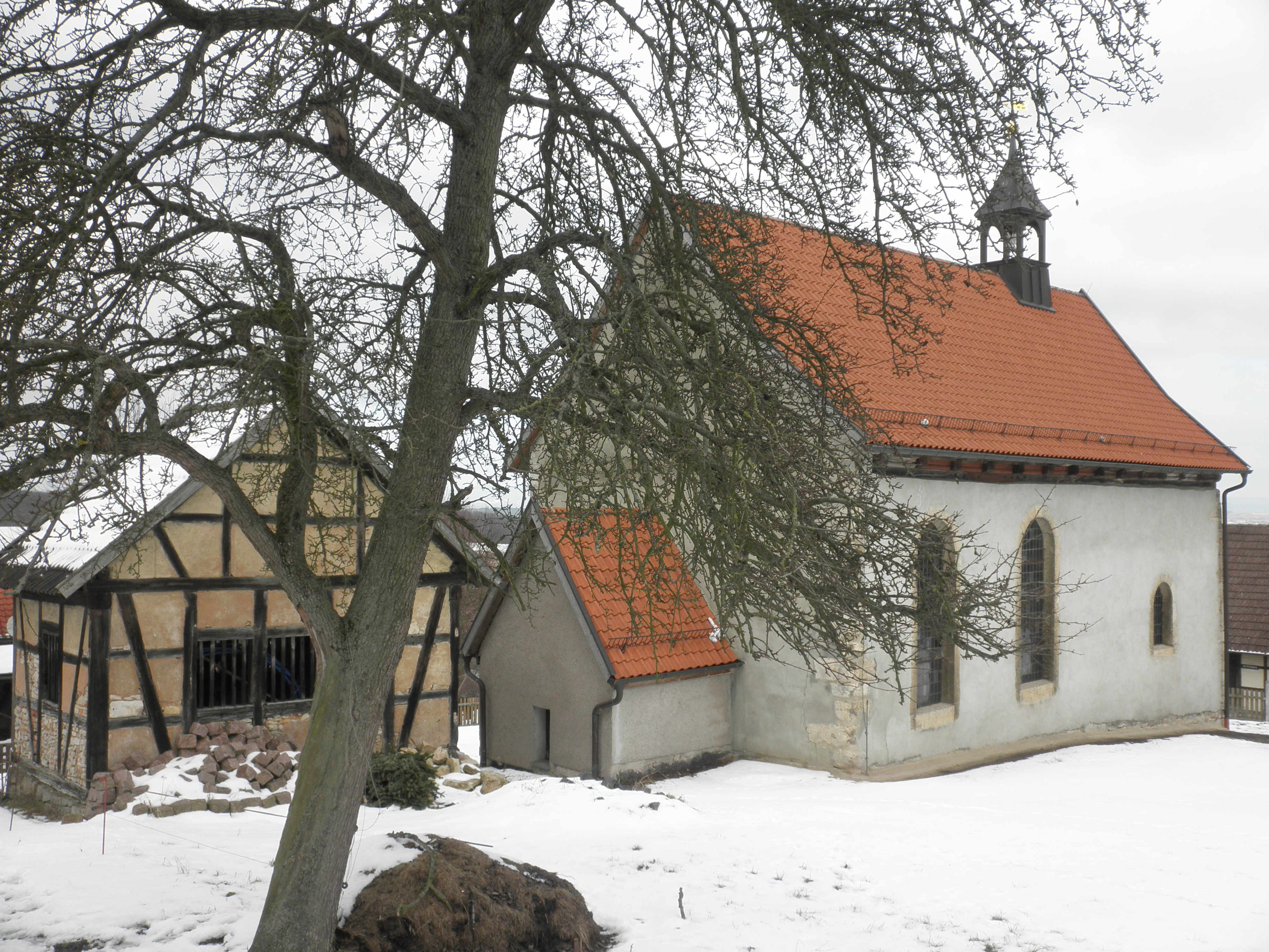 Church in Großwenden (Großlohra) in Thuringia